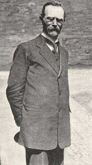 Photograph of Eoin MacNeill, or John McNeill, Chief of Staff of the Irish Volunteers, 1916.